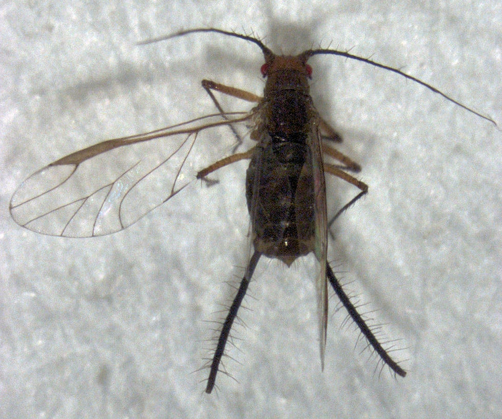 Greenidea ficicola alate